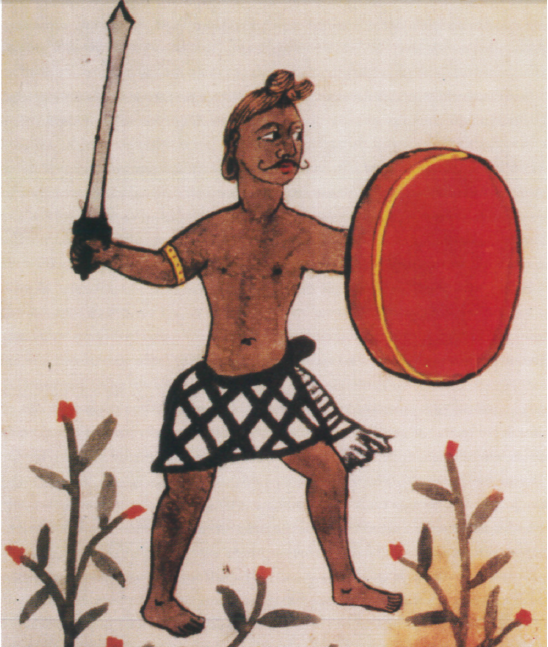 A 16th century Indo-Portuguese depiction of a Malabarese warrior of the Nayar or Nair caste (Naire in Portuguese), present in the anonymous Portuguese codex now stored in the Casanata library in Italy.